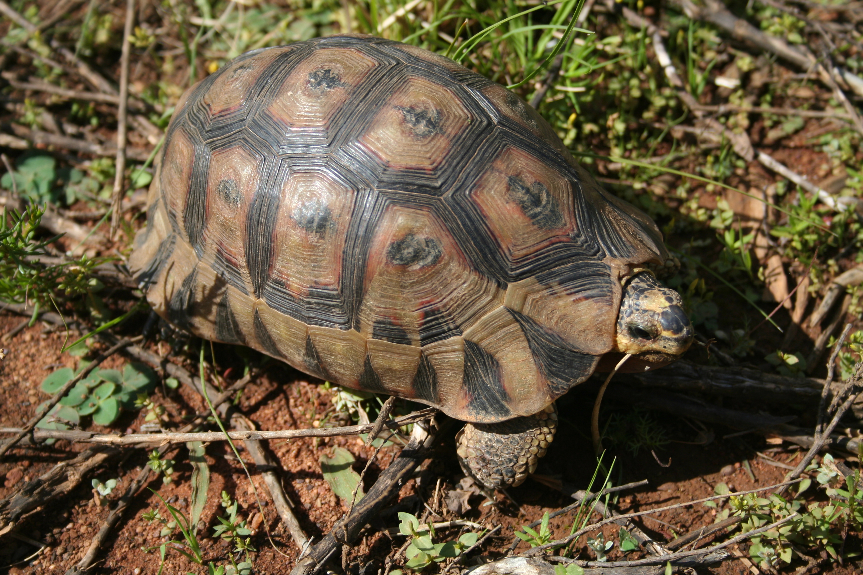 Male Chersina angulata, Helderberg Nature Reserve, South Africa